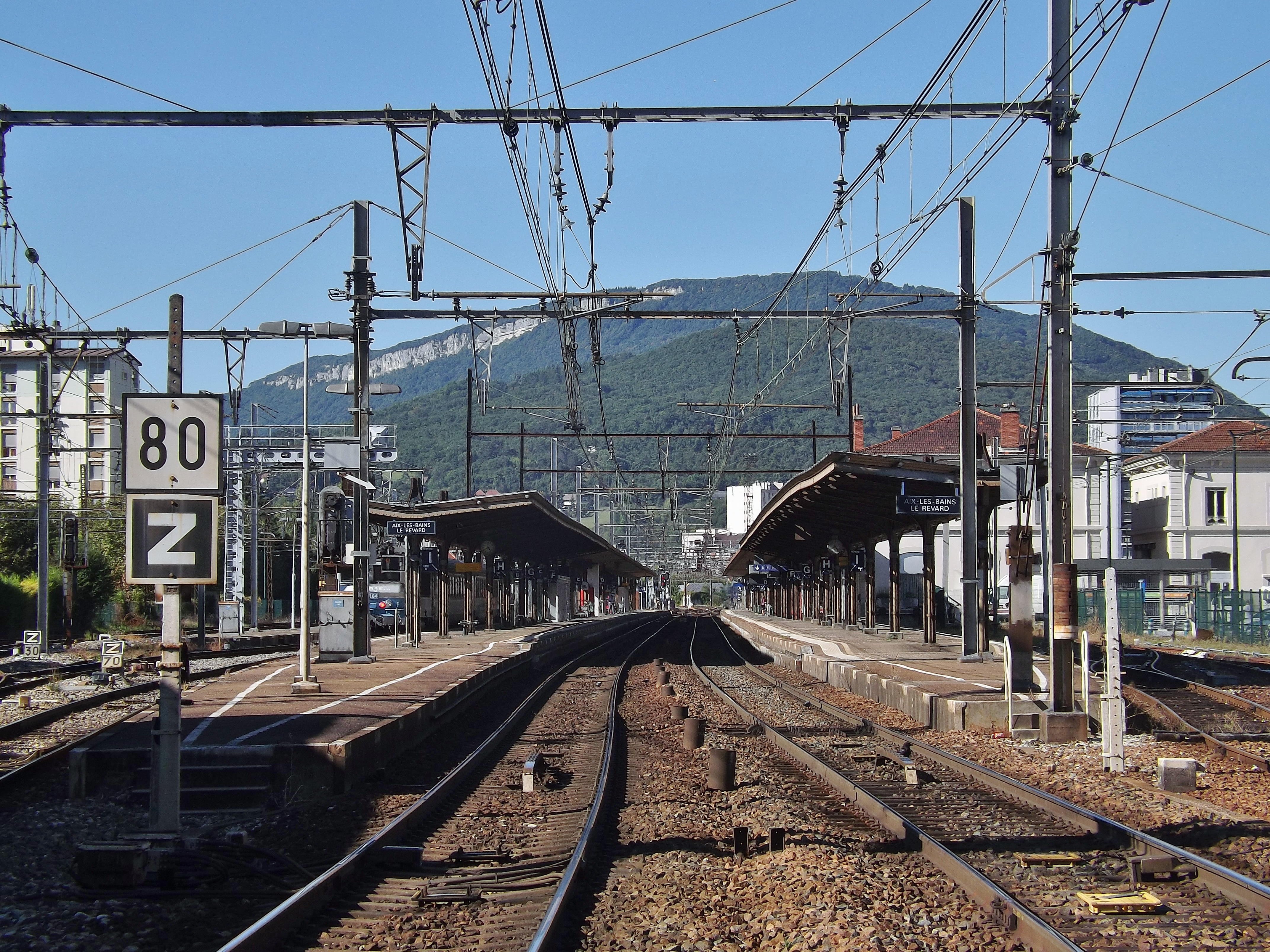 Sight of the Maurienne line here entering into the city of Aix-les-Bains railway station when coming from Chambéry, in Savoie, France.